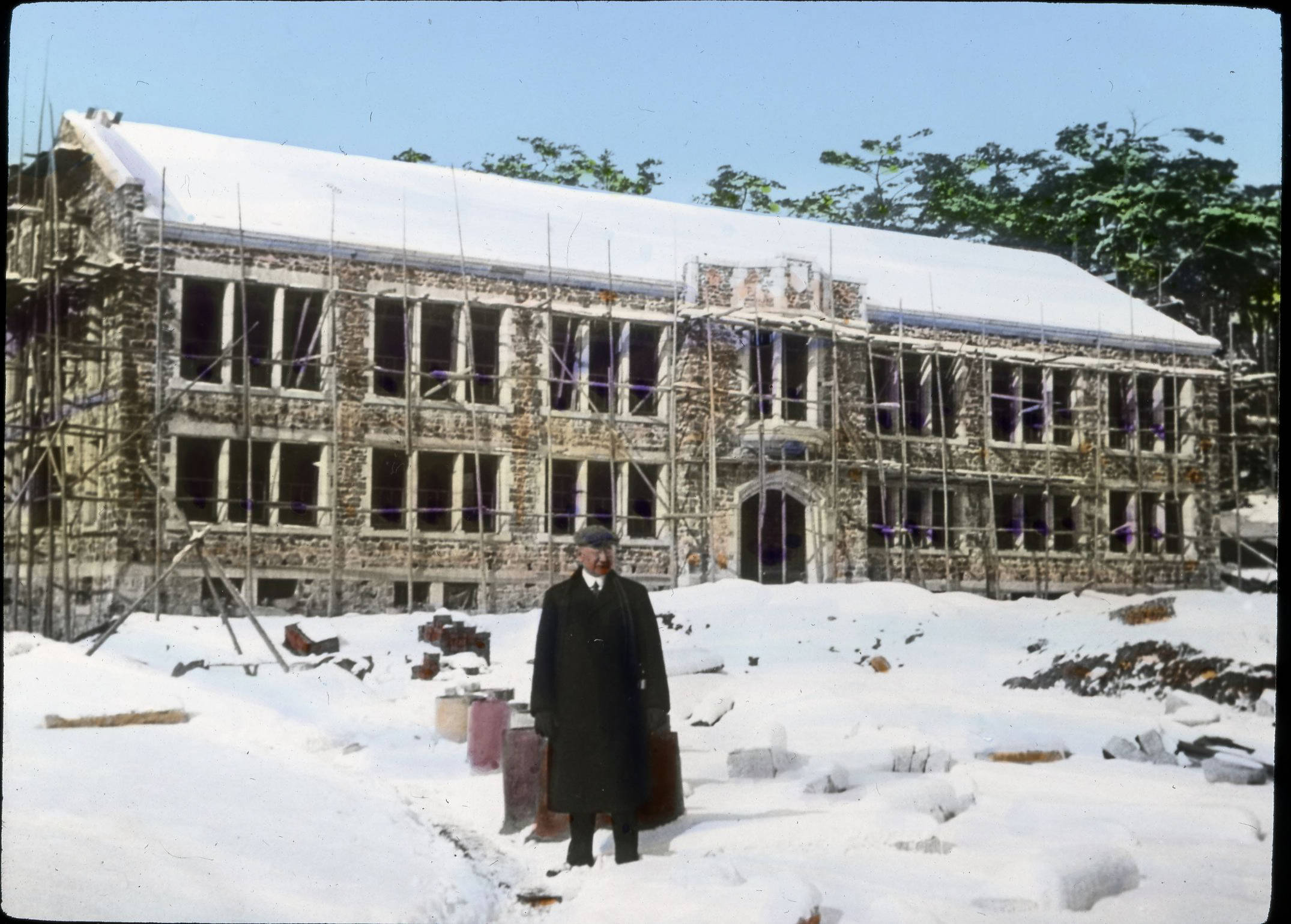 Chosen Christian College, Seoul, [s.d.] This school is the ranking educational institution of Korea. Four mission bodies, including the Methodist Episcopal, unite in its operation. Two permanent buildings, erected 1920 and 1922. School grounds cover more than 100 acres. Departments of literature, science, commerce, bible studies, and agriculture. Two-thirds of the graduates are now teachers in Christian schools. Date created: 1908/1922 Publisher (of the Digital Version): University of Southern California. Libraries Repository Name: Methodist Church (U.S.) Legacy Record ID: kda-m52 Photographer: Methodist Episcopal Church Format: photograph Archival file: kda_Volume42/Taylor_box45num39.jpg Rights: "Neither the General Conference nor any General Agency of The United Methodist Church (successor to the Methodist Episcopal Church) claims any interest in the photos or images." Part of subcollection: The Reverend Corwin & Nellie Taylor Collection Coverage date: 1908/1922 Contributing entity: University of Southern California Repository Address: Nashville, Tennessee Part of collection: Korean Digital Archive Donor: Taylor, Ewing Bevard Filename: Taylor_box45num39 Type: images Geographic Subject (City or Populated Place): Seoul Geographic Subject (Country): Korea Compiler: Taylor, Corwin; Blood-Taylor, Nellie